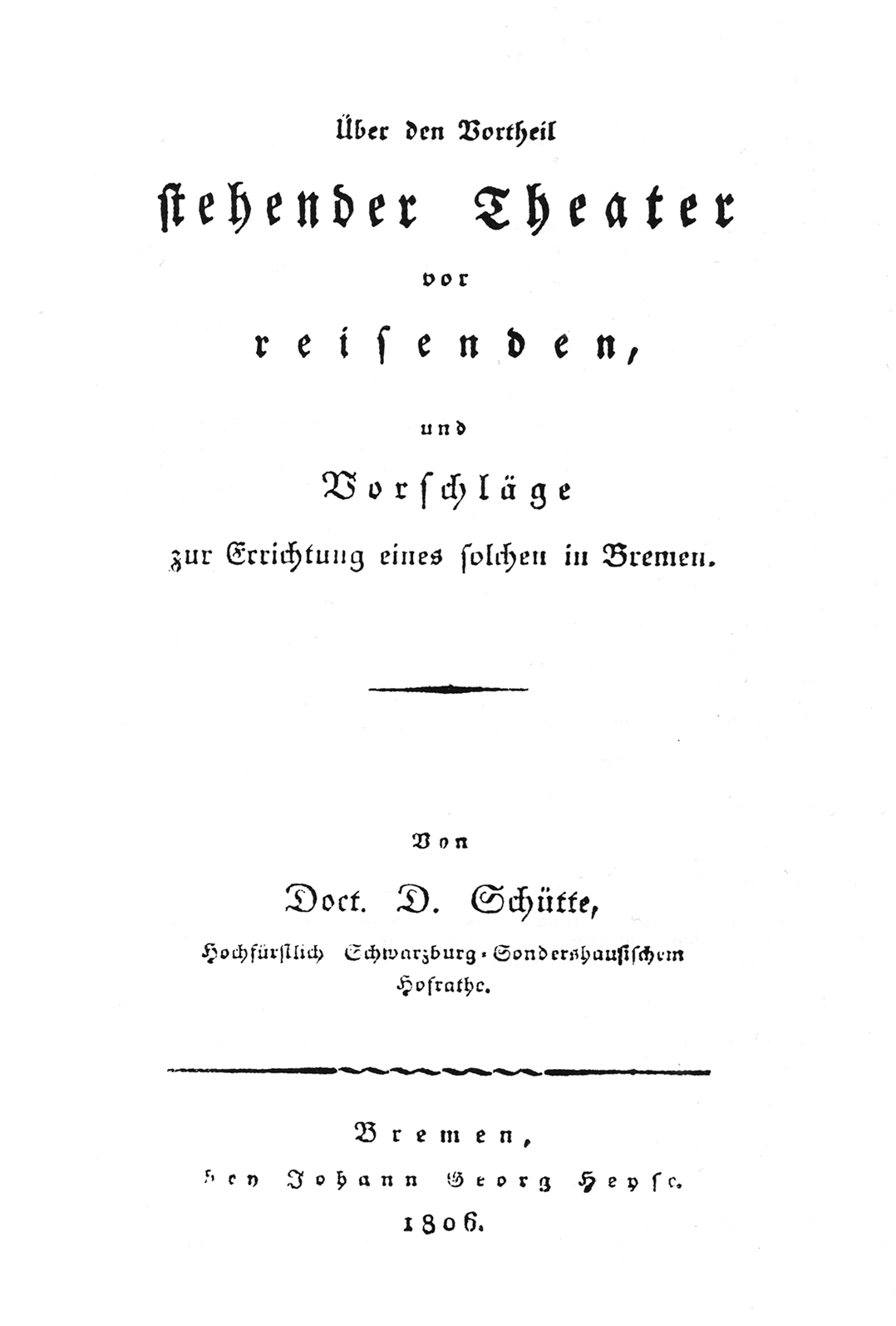 Über den Vortheil stehender Theater vor reisenden, und Vorschläge zur Errichtung eines solchen in Bremen (“About the benefit of a standing theater compared with a travelling one, and proposals for the installation of such a theater in Bremen”). Pamphlet by Daniel Schütte from the year 1806.